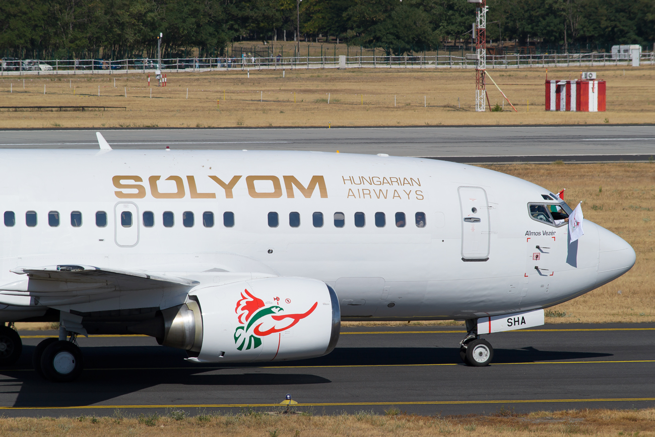 Sólyom Hungarian Airways B737